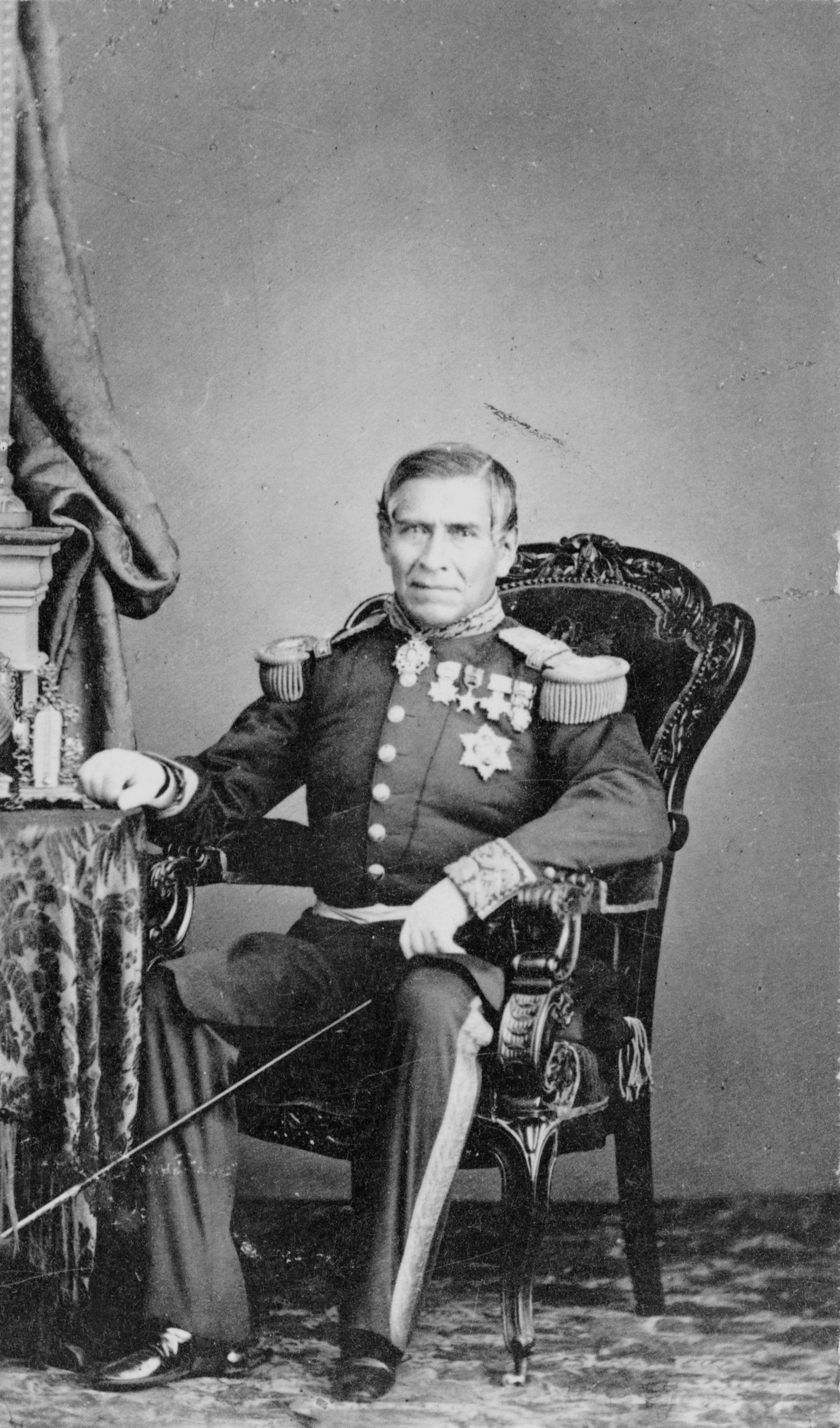 A full-length portrait (seated, facing front) of Juan Nepomuceno Almonte, a Mexican general, politician and diplomat